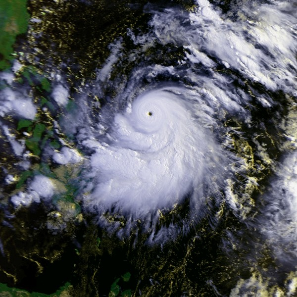 Typhoon Betty on August 10 at approximately 2250 UTC. This image was produced from data from NOAA-10, provided by NOAA.